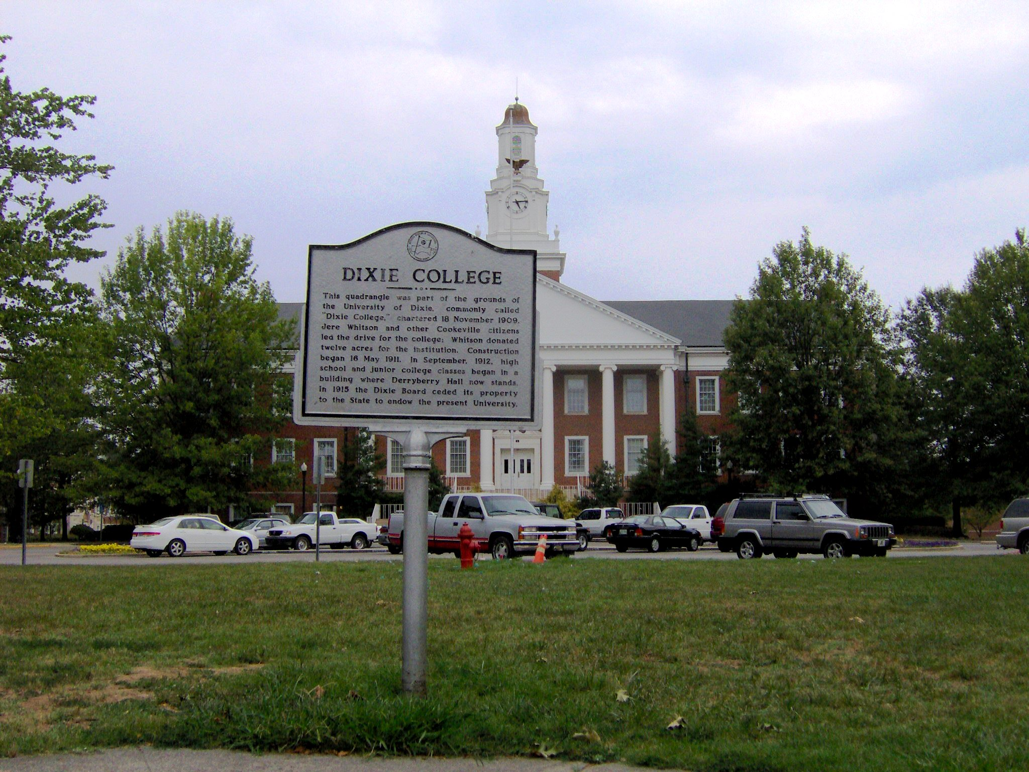 Dixie College historical marker in front of Derryberry Hall on the campus of Tennessee Technological University in Cookeville, Tennessee.